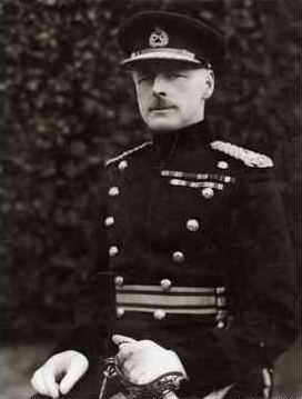 Photograph of Major General Winston Joseph Dugan, 1st Baron Dugan of Victoria GCMG CB DSO KStJ.